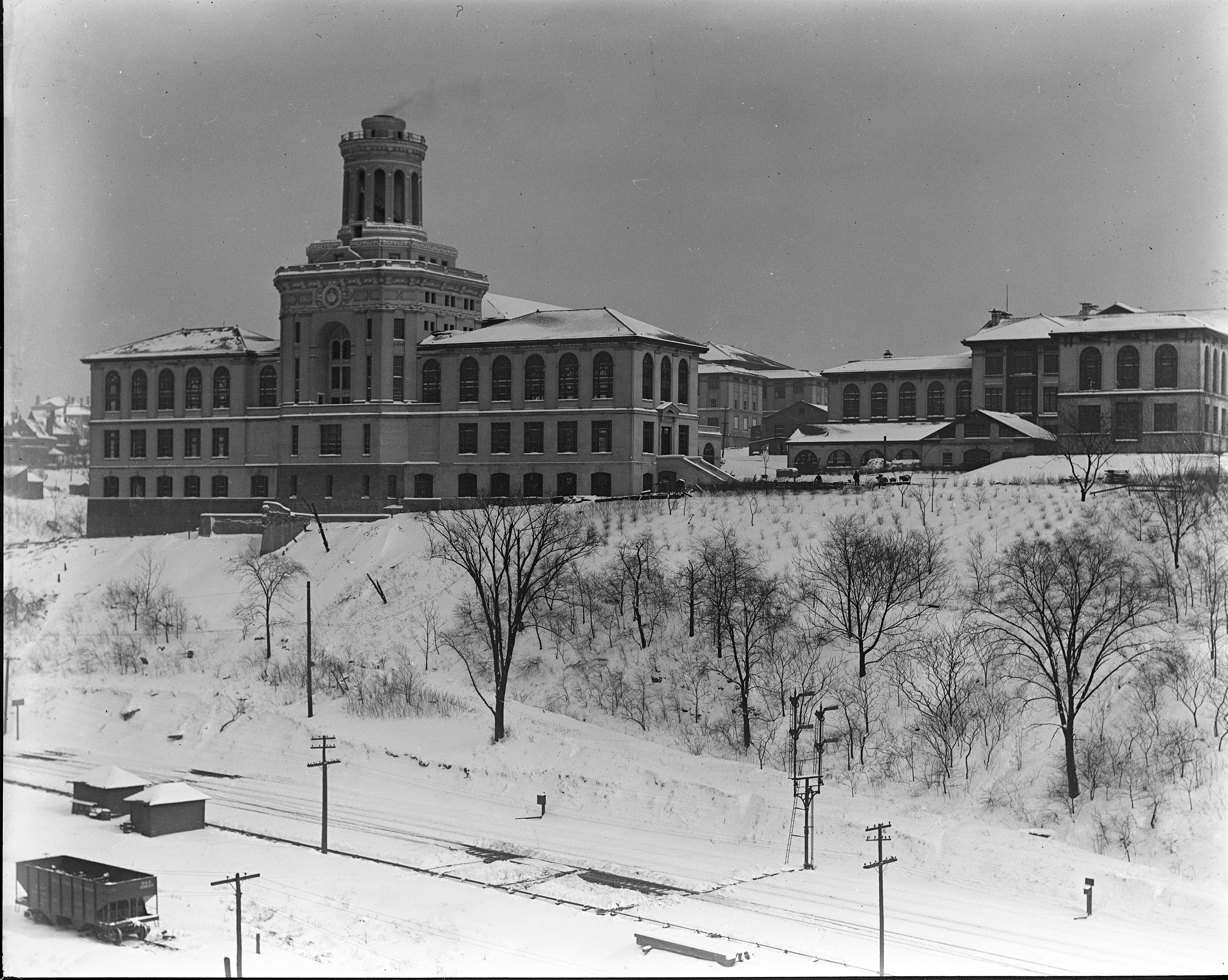 Scanned from a 4x5 glass plate. Titled "Machinery Hall, Carnegie Institute of Technology, Pittsburgh, PA. aperture f/44."